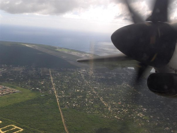 Looking SW to Las Americas International Airport, while on board an American Eagle Super ATR en route to SJU. Main runway visible just off the wingtip.